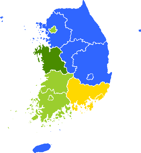 map of Provincial level division during the South Korean presidential election, 1987